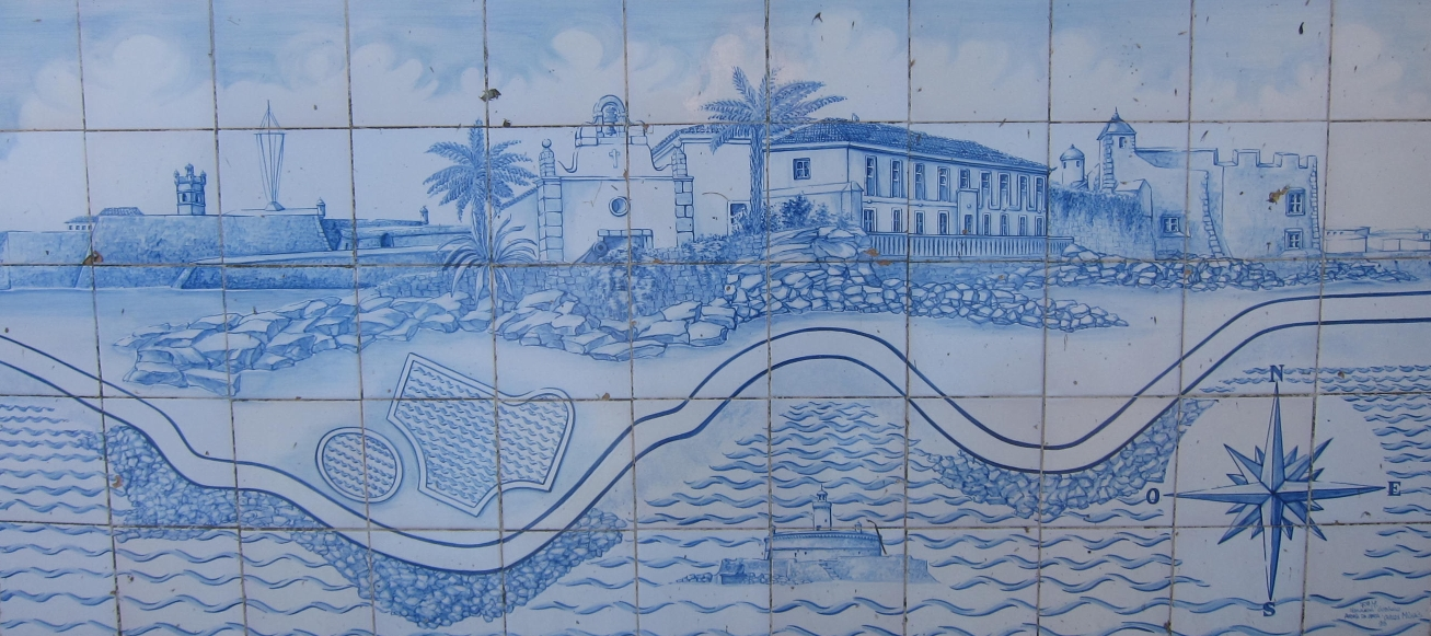 Azulejo mural highlighting some of the attractions along the Oeiras seaside promenade.